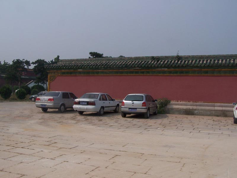 Screen Wall in front of Nan San Suo.